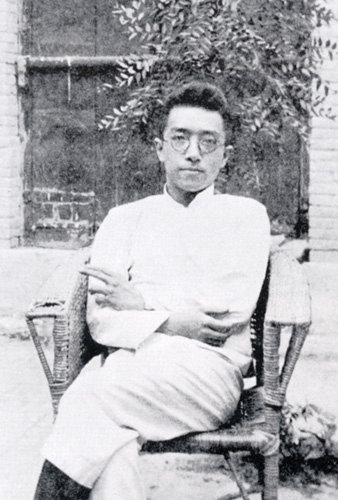 Hu Shih in Peking